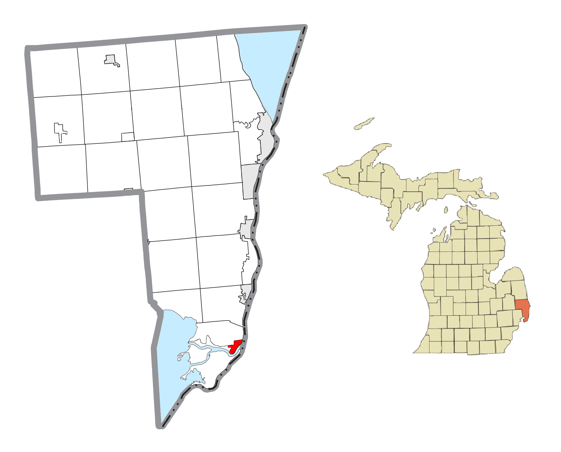 Algonac, MI